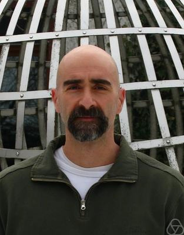 Andrea Cianchi, Oberwolfach 2010